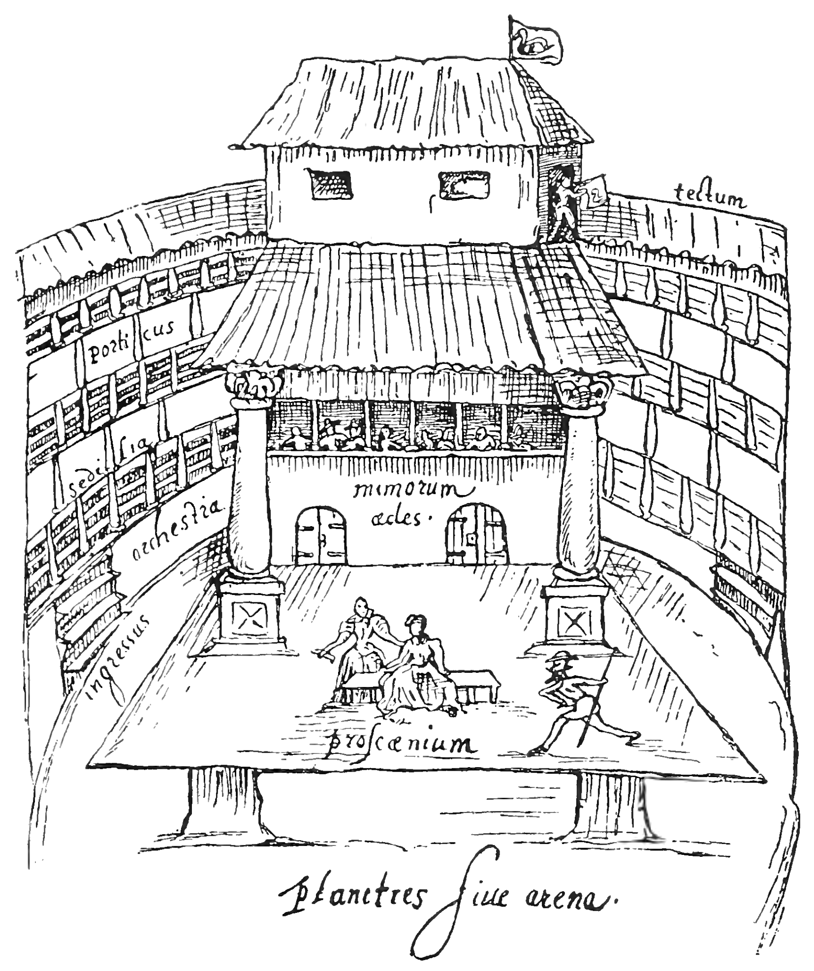 A performance in progress at the Swan theatre in London in 1596. Cropped version of this sketch.